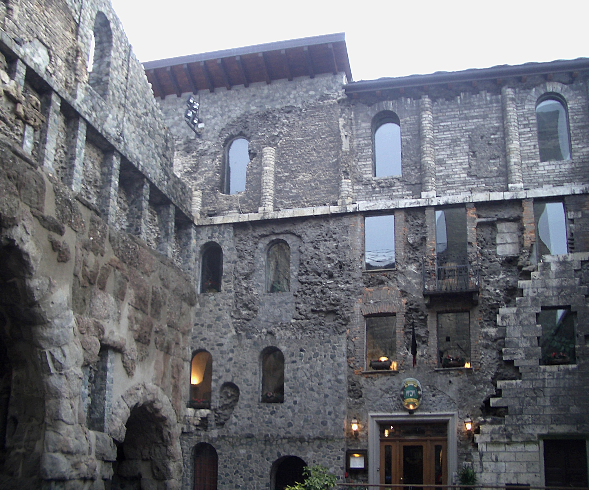 Porta Praetoria, Roman Architecture, Aosta, Italy